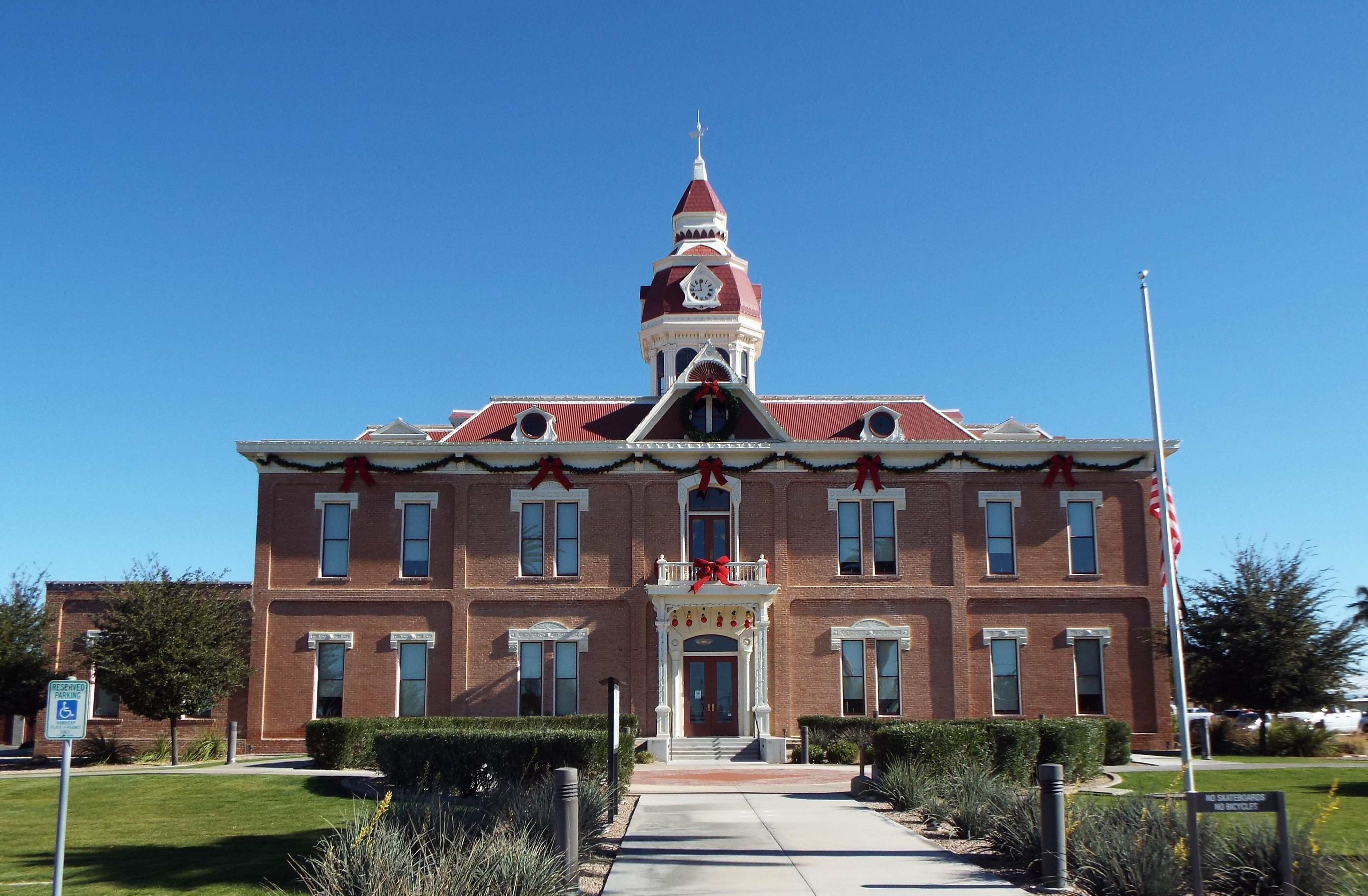 The Second Pinal County Courthouse was built in 1891 and is located in 135 Pinal St. in Florence, Arizona. The Courthouse is the most important architectural landmark in Florence and the most outstanding surviving example of the American-Victorian Style in Central Arizona. The building was designed by Arizona architect James M. Creighton, who was among the Territory’s first architects. Three notorious women were presented before this court. They were Pearl Heart, Eva Dugan and Winnie Ruth Judd. Listed in the National Register of Historic Places in August 2, 1978, reference #78000568.